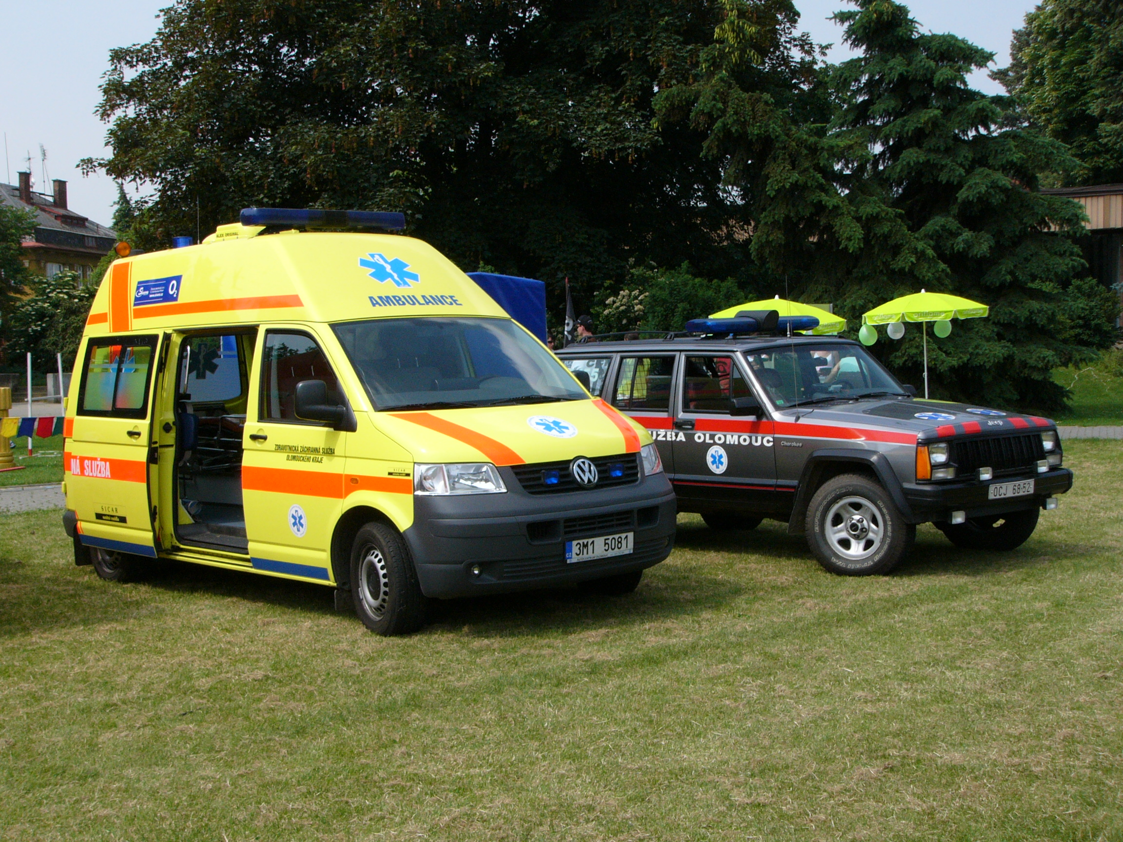 Ambulance Volkswagen Transporter (T5) - a car of Emergency medical services in the Czech Republic and ambulance Jeep Cherokee.